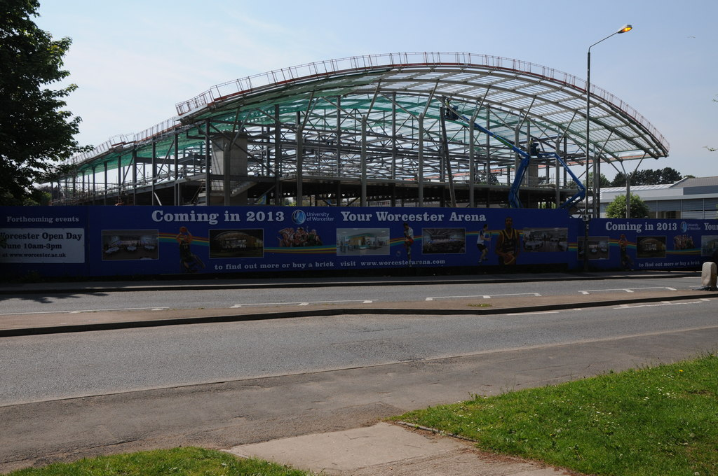 Photo of Worcester Arena